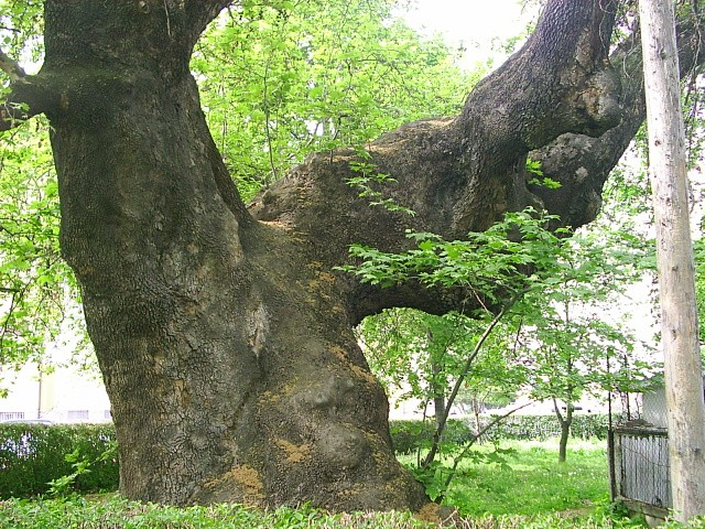 Skopje, capital of the Republic of Macedonia